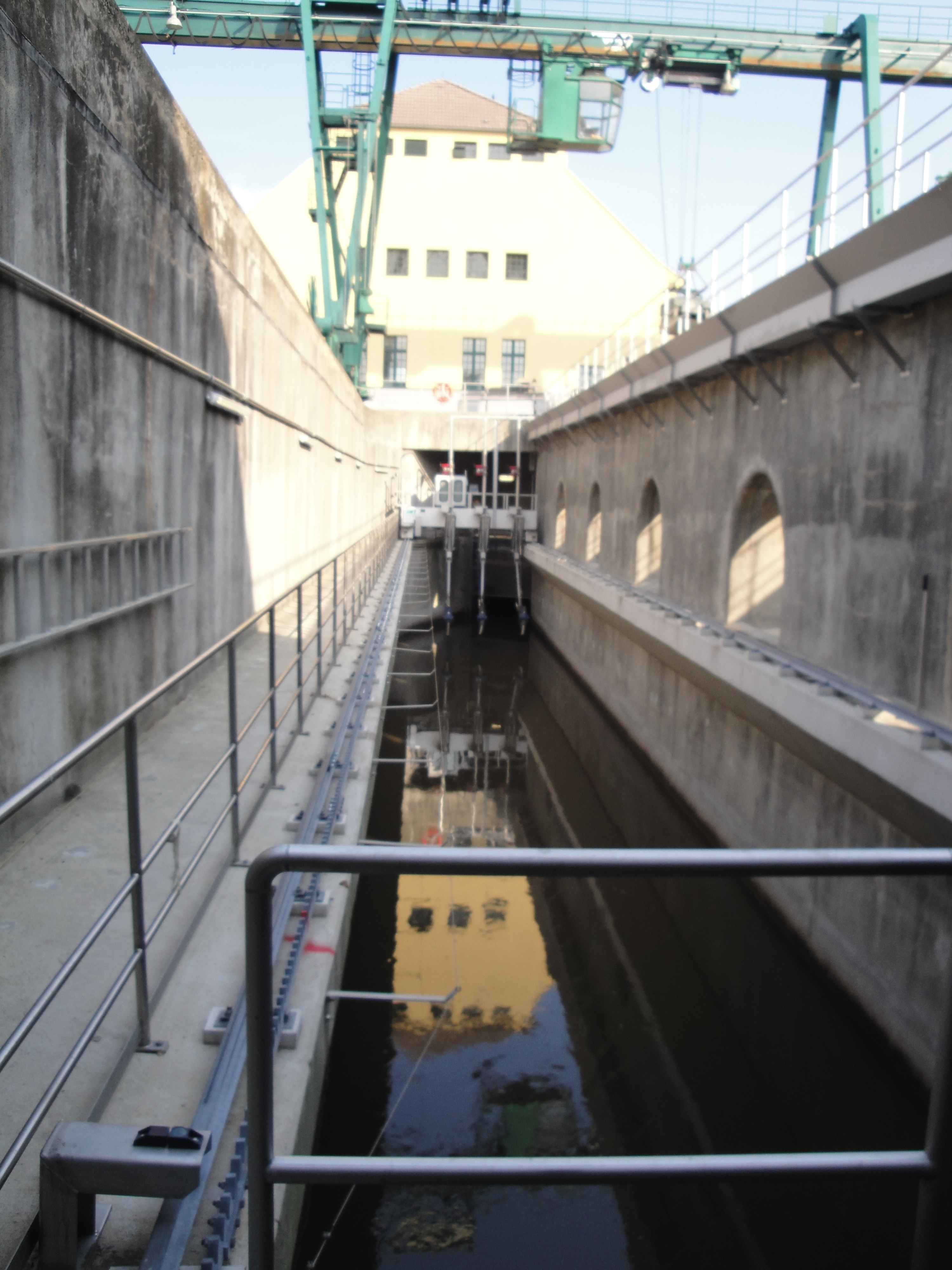 Kläranlage Dresden Kaditz - Wastewater treatment plant in Dresden, Saxony